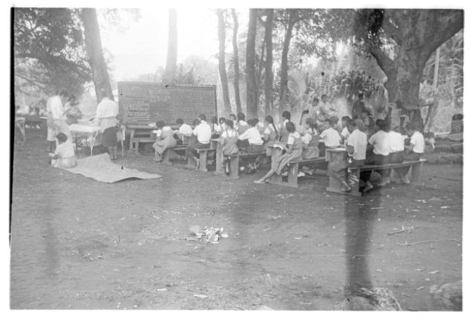 School pupils from Niuafo'ou sitting Government or Wesleyan Middle School exams on boat-day